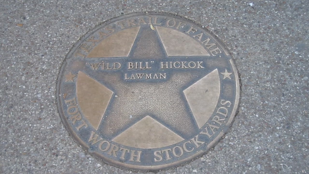 I took photo of historical marker in Fort Worth with a Canon camera.